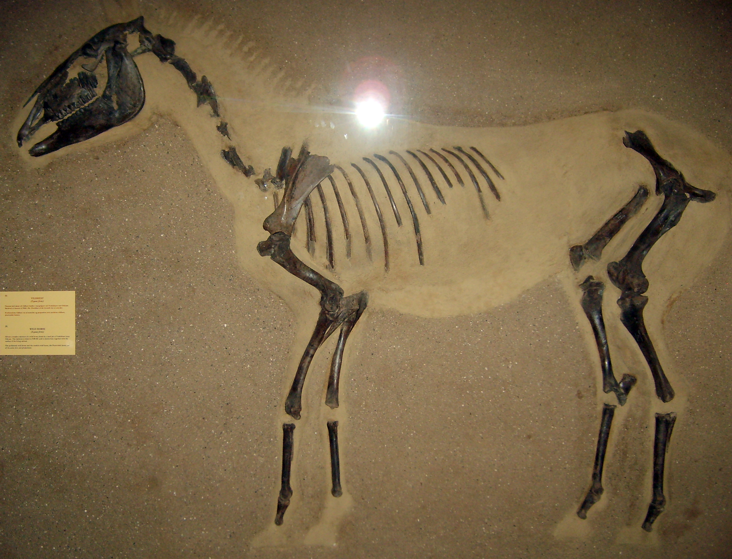 Equus ferus fossil from 9100 BC found near Odense, Denmark, with reconstructed outline at the Zoological Museum in Copenhagen.